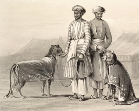 Lithograph (sketch) of attendants in white paijamas with hunting cheetahs of the Nawab of Oudh Uploaded by Fowler&fowler«Talk» 07:15, 24 November 2008 (UTC)